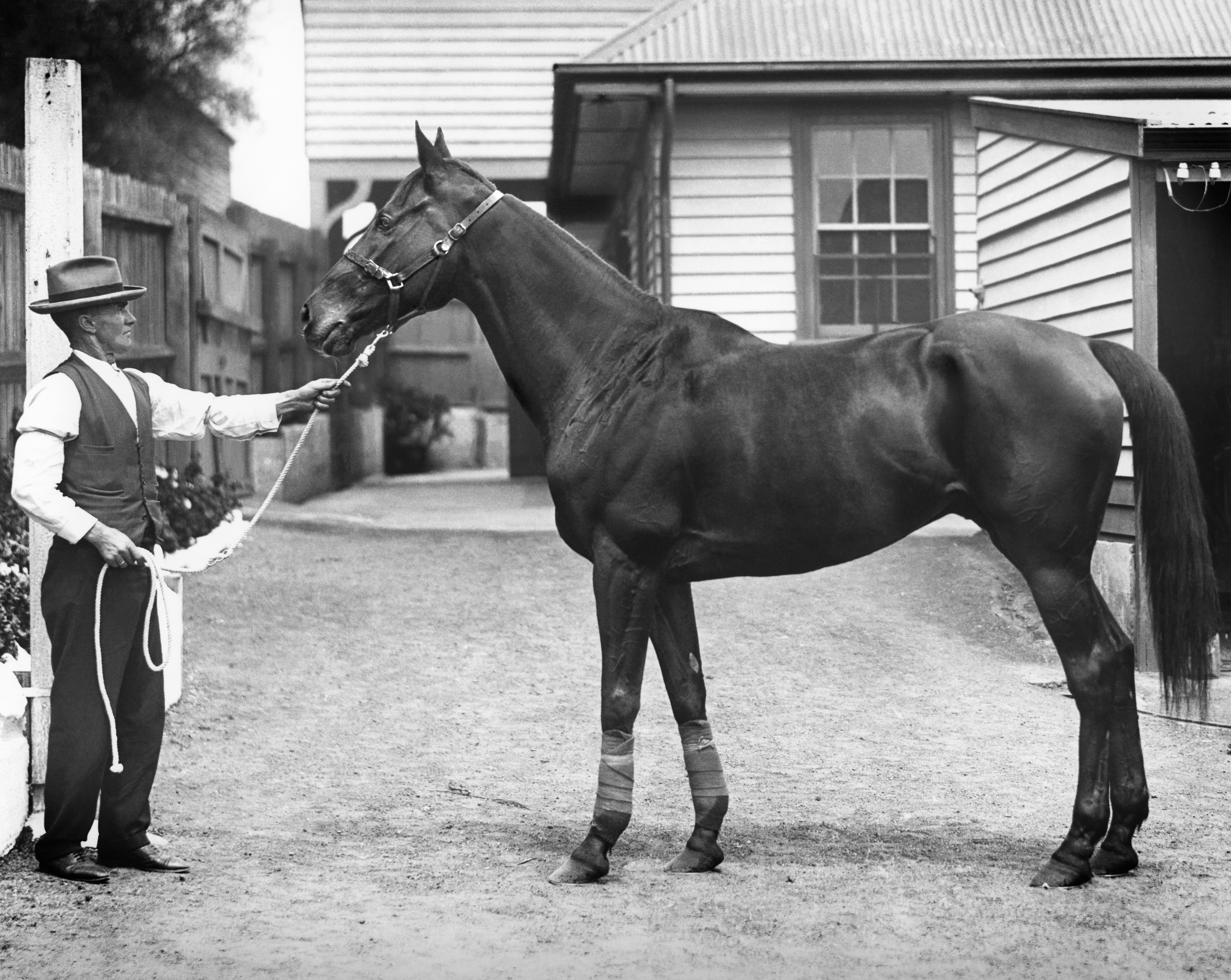 High resolution scan from original photo digitally optimised